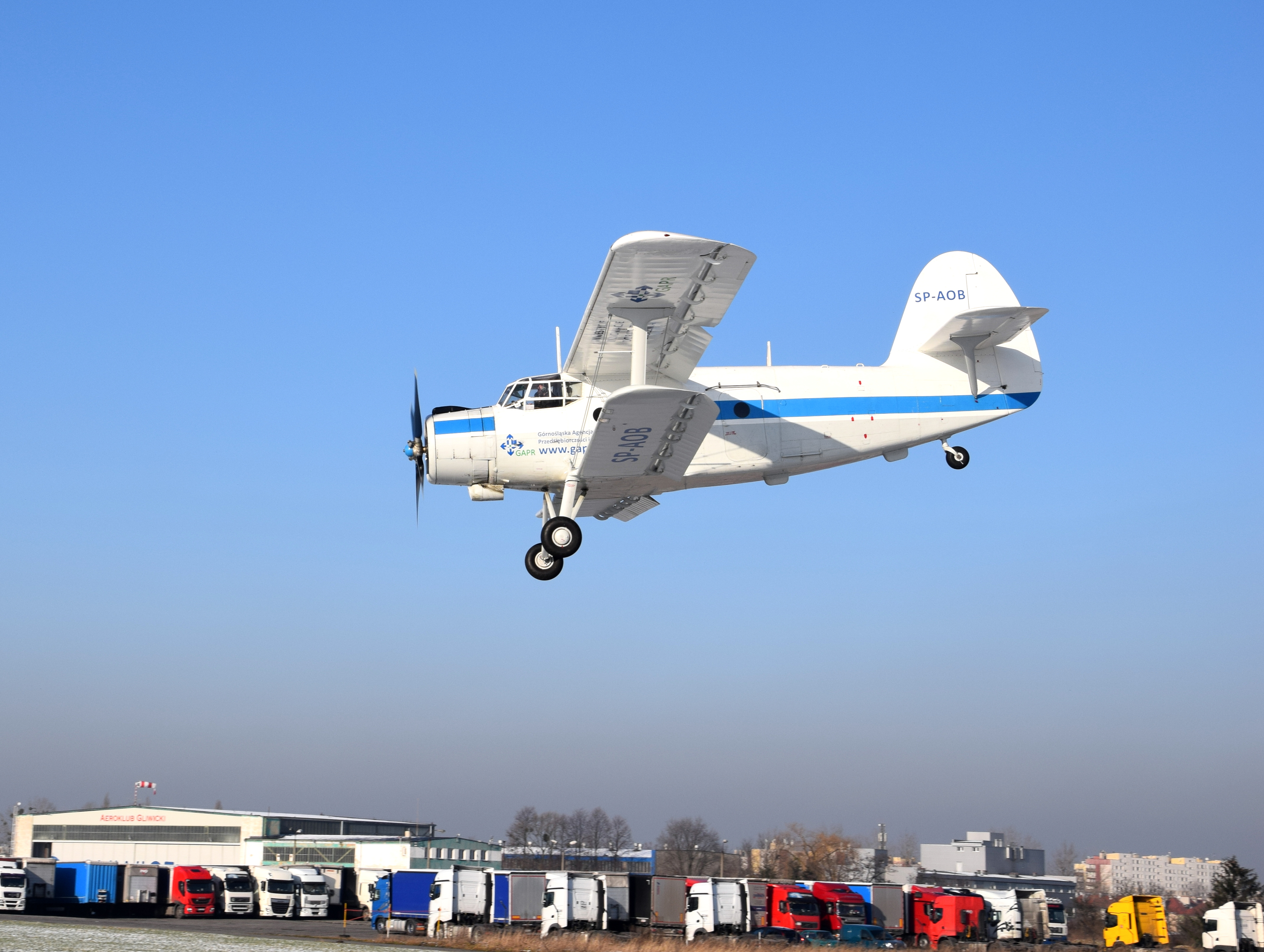 Gliwice, Antonov An-2TD